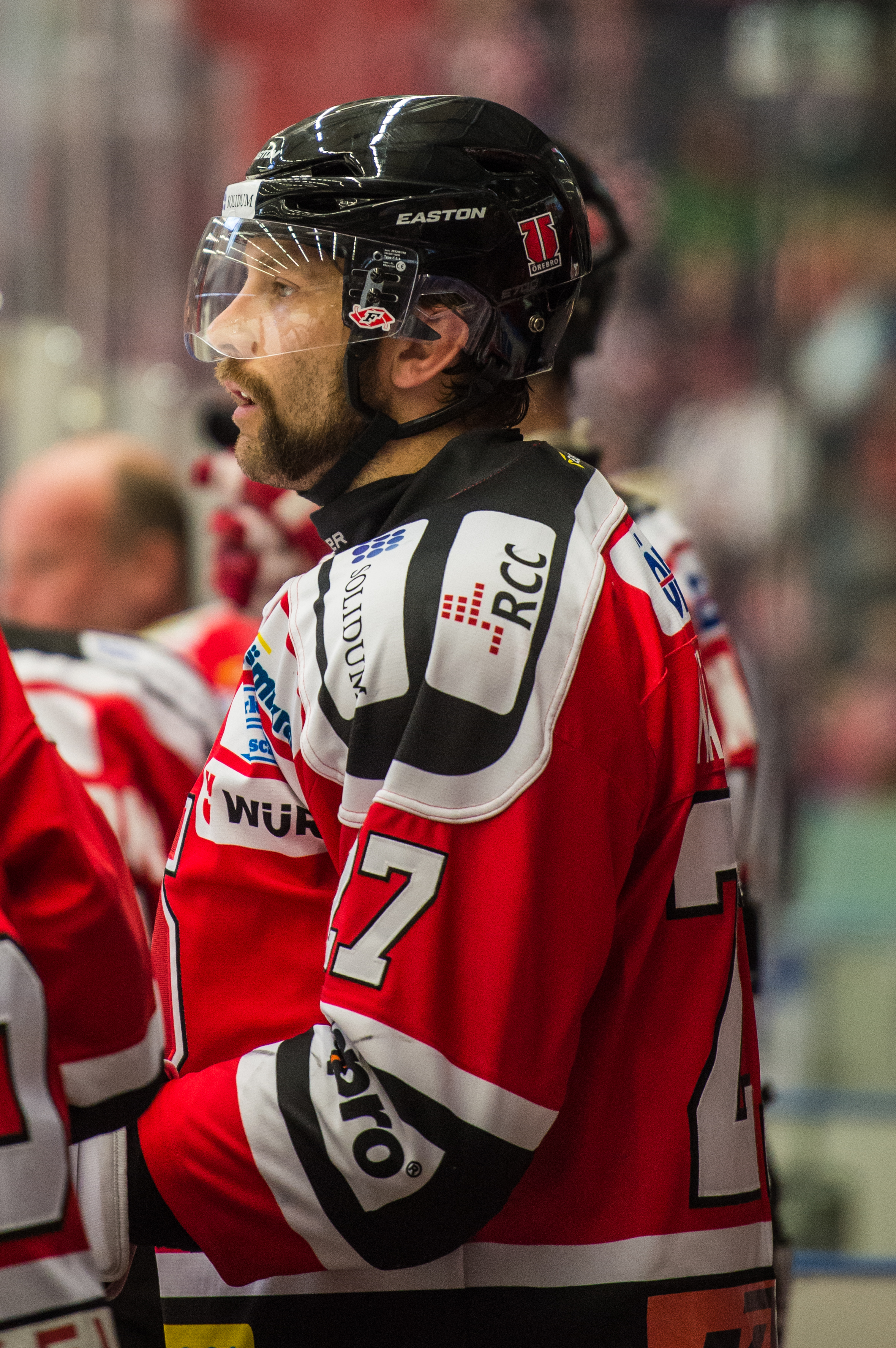 Emil Kåberg playing for Örebro HK in SHL (Sweden's highest league) against MODO Hockey in Behrn Arena 2013-10-05.